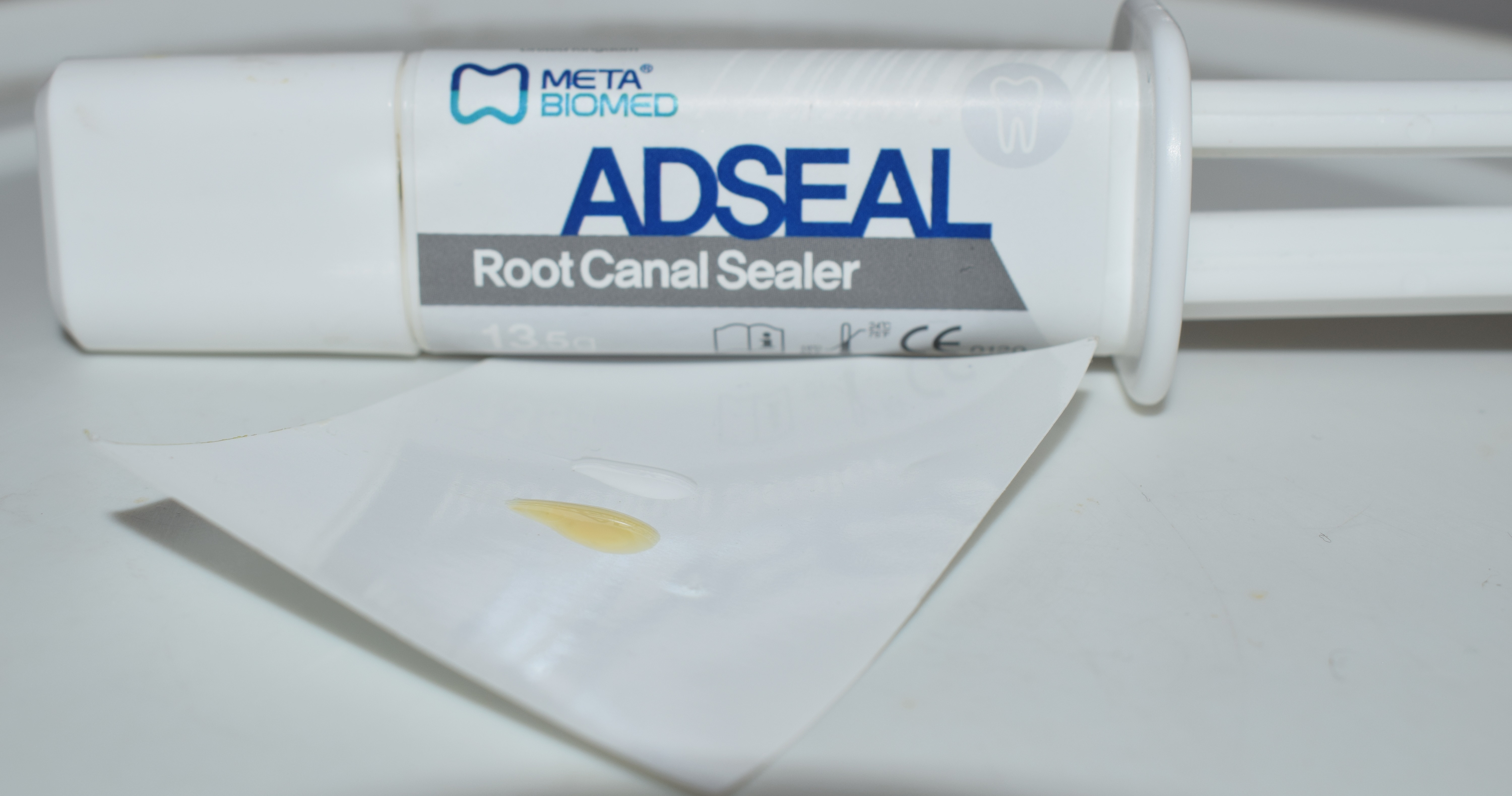 Adseal (Resin Based Root Canal Sealer) , Base made of Epoxy resin & Calcium phosphate, and Catalyst of Amines & Bismuth subcarbonate